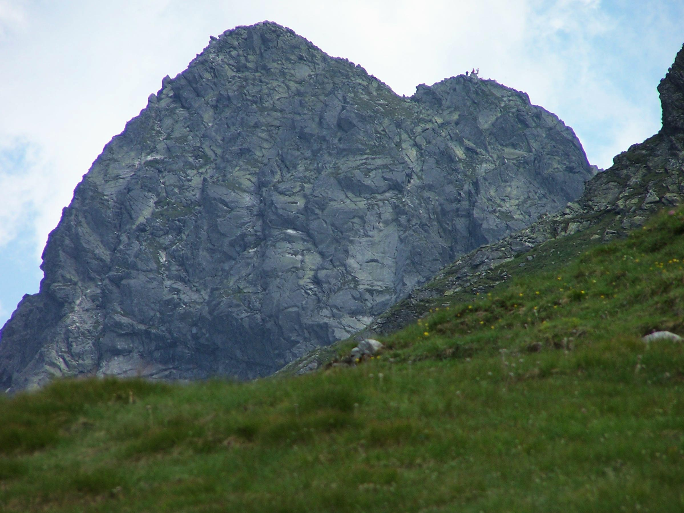 Świnica (Tatra Mountains)